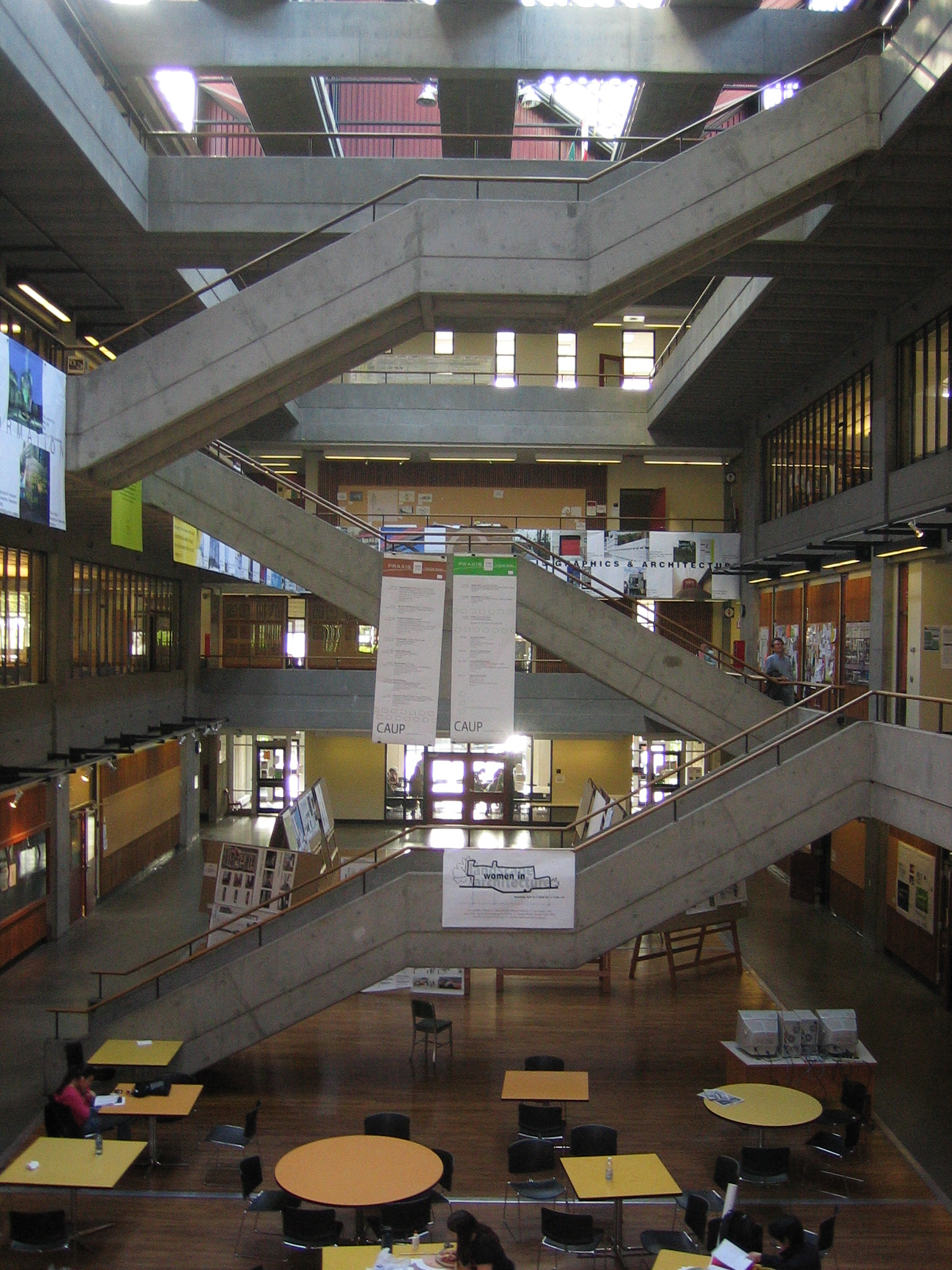 Gould Court atrium at the College of Architecture and Urban Planning, University of Washington.